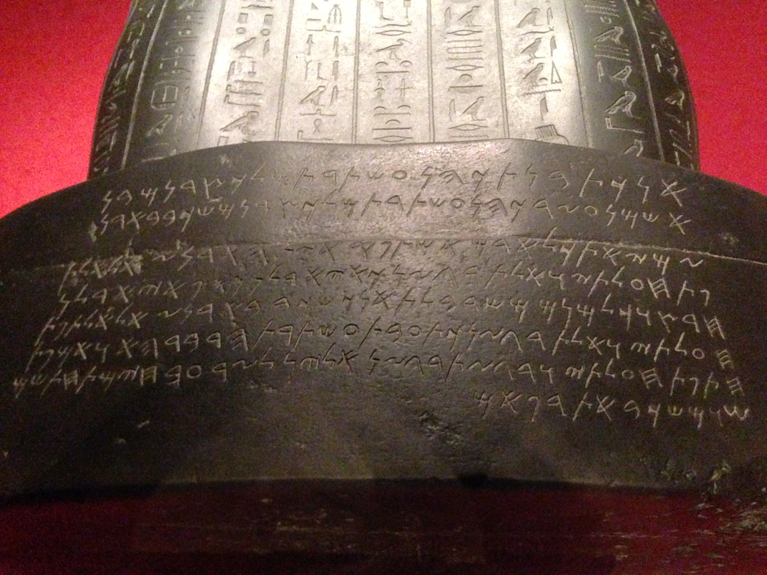 Close up of the Phoenician Tabnit inscription at the Istanbul Archaeological Museums